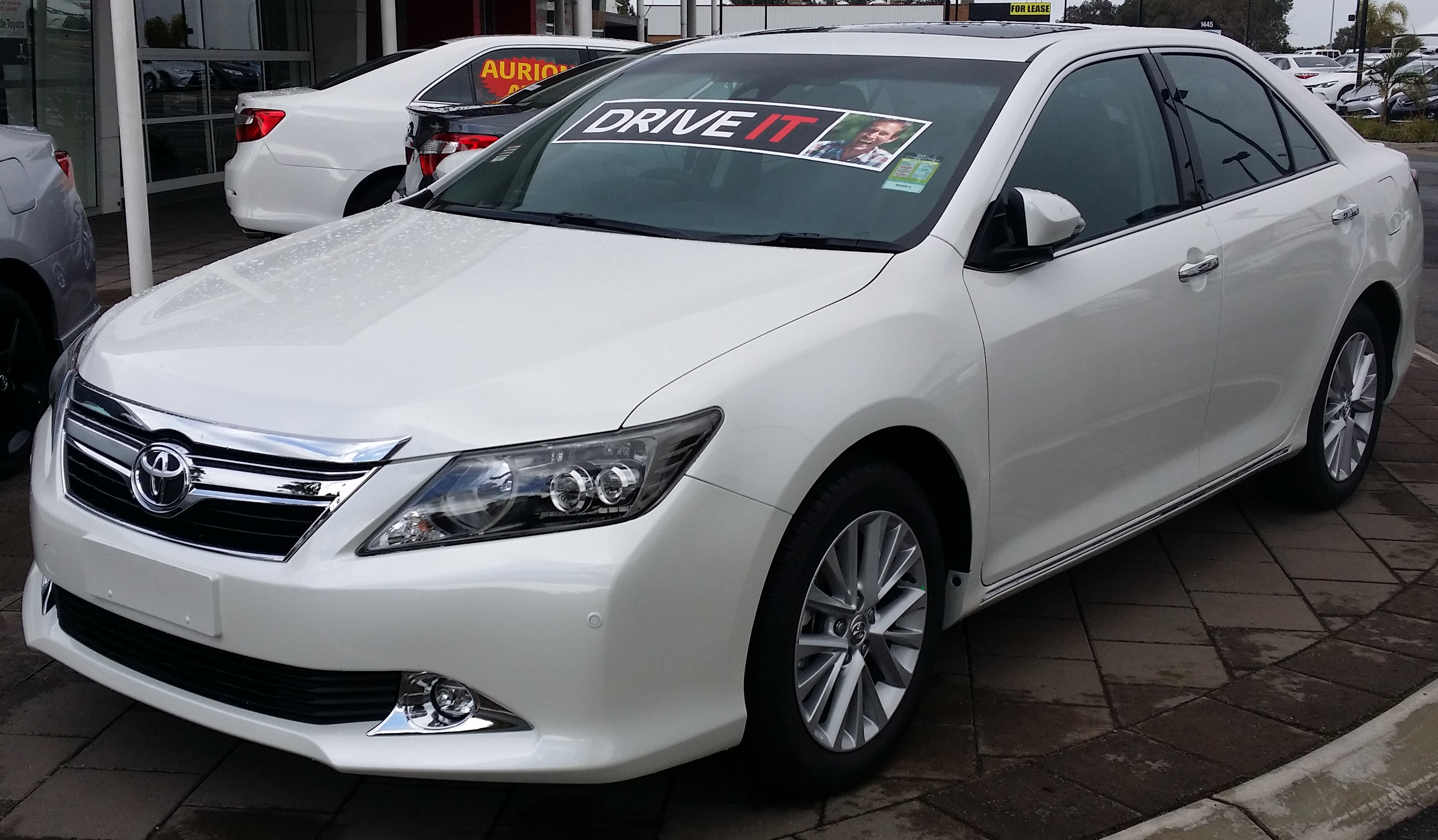 Australian built Toyota Aurion. In some parts of the world, this is the ASEAN Camry, which is also sold in Russia, with the 'other' Camry, being the 'Global' model, sold in the US. Australia is one of a very markets where both Camry's are sold along side one another.